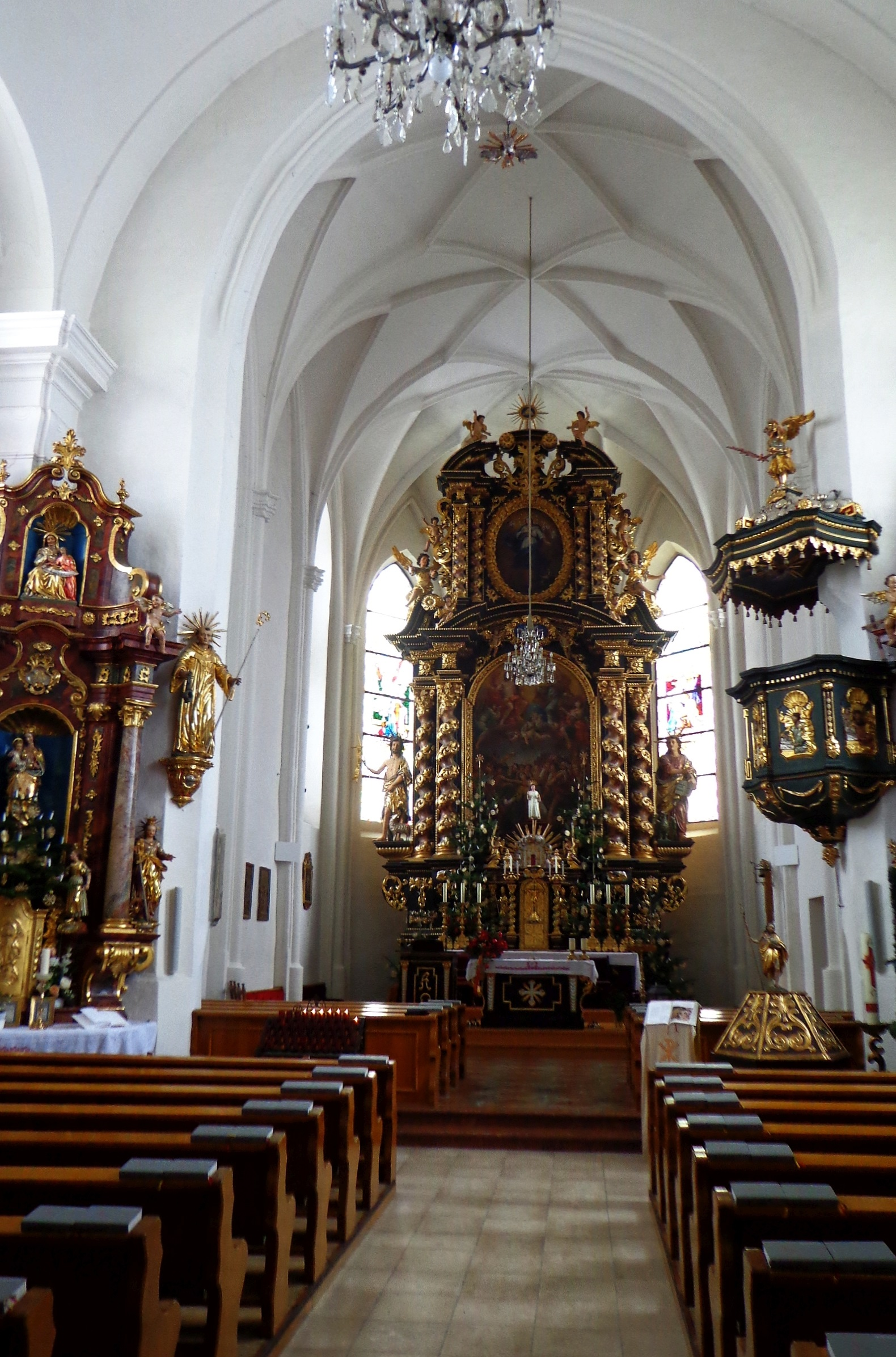 Pfarrkirche Andorf - view towards the east